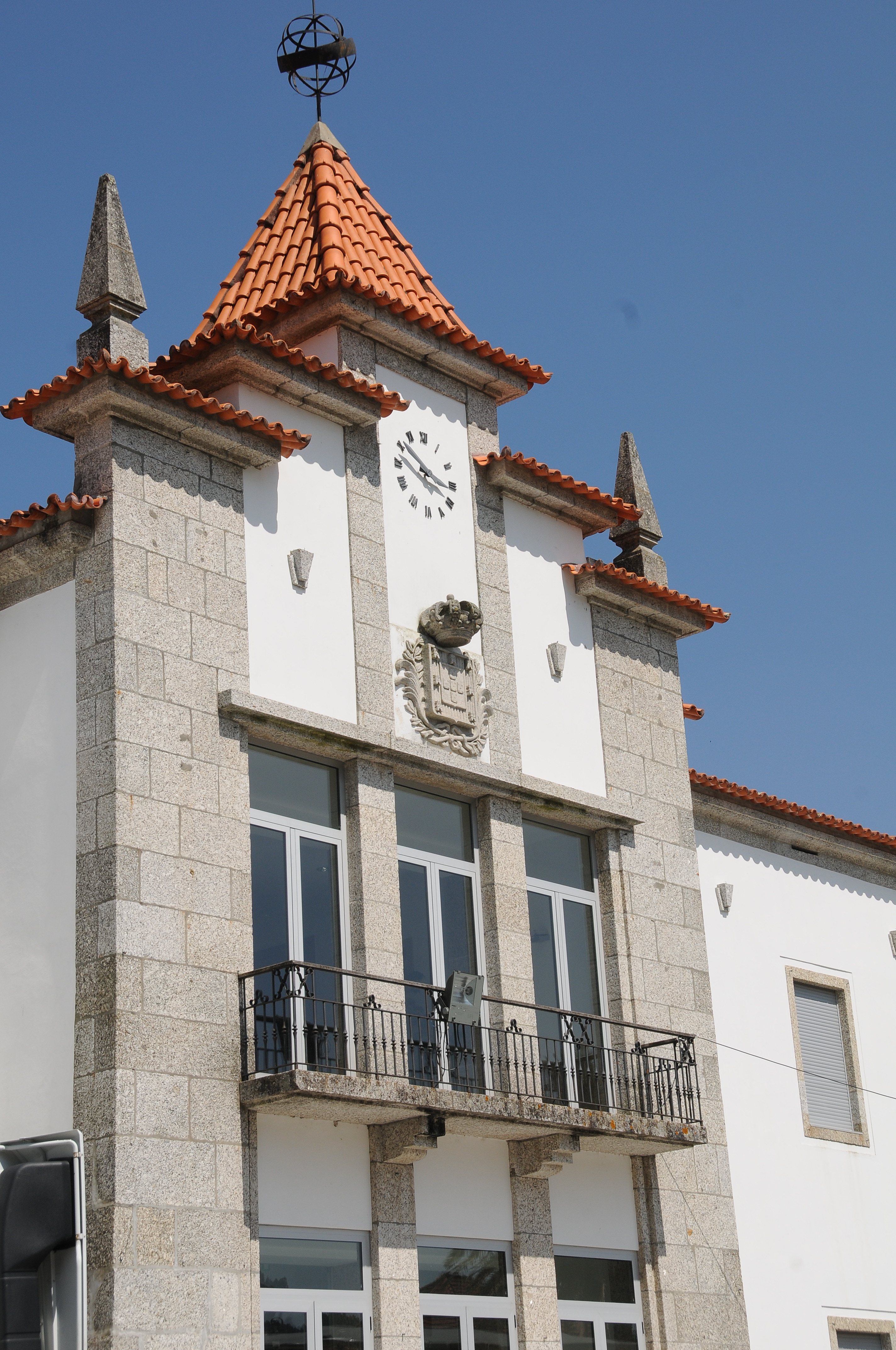 Câmara de Vieira do Minho, distrito de Braga, Portugal